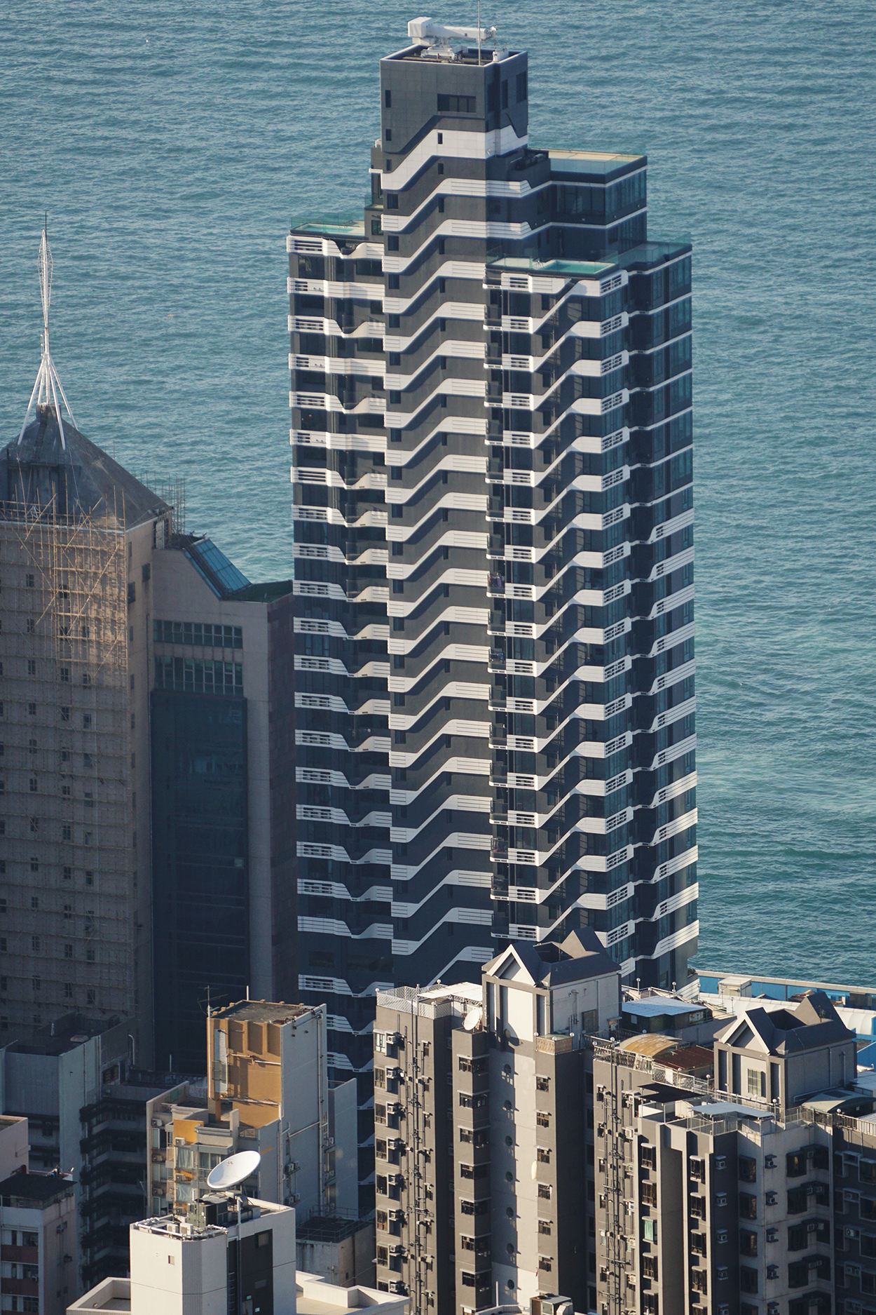 Upton in Shek Tong Tsui, Hong Kong.